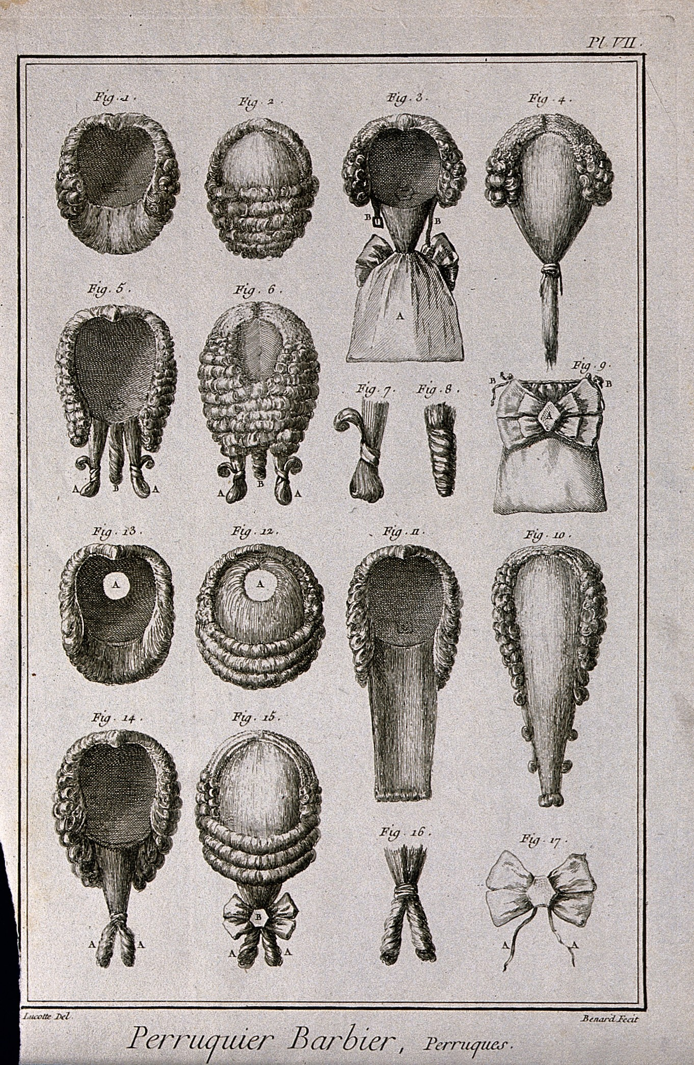 A variety of wigs. Engraving by R. Bénard after J.R. Lucotte, 1762. Iconographic Collections Keywords: J.-R. Lucotte; Robert Bénard